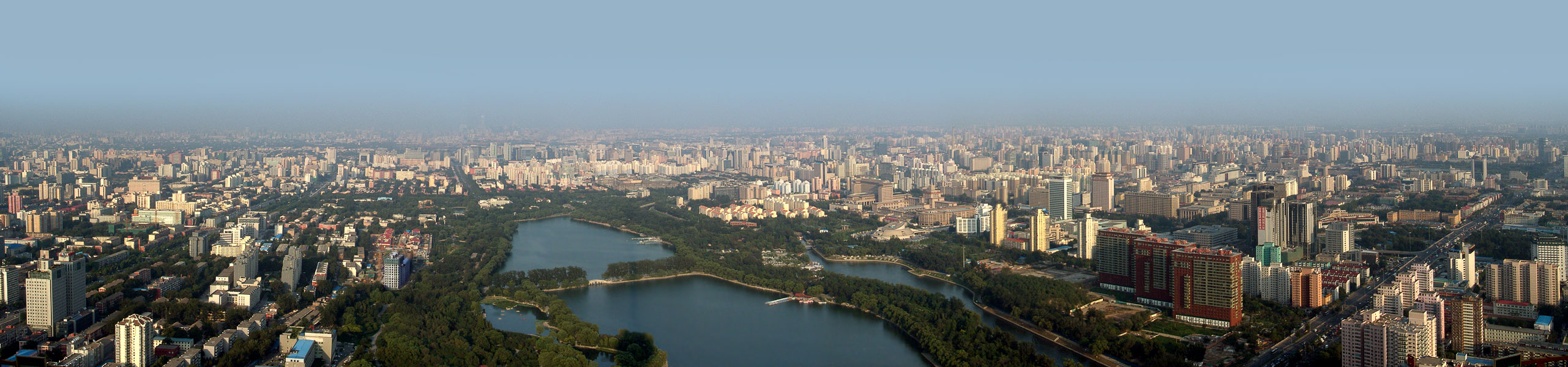 Haidian District of Beijing from the Beijing TV Tower, with Yuyuantan Park in the foreground.